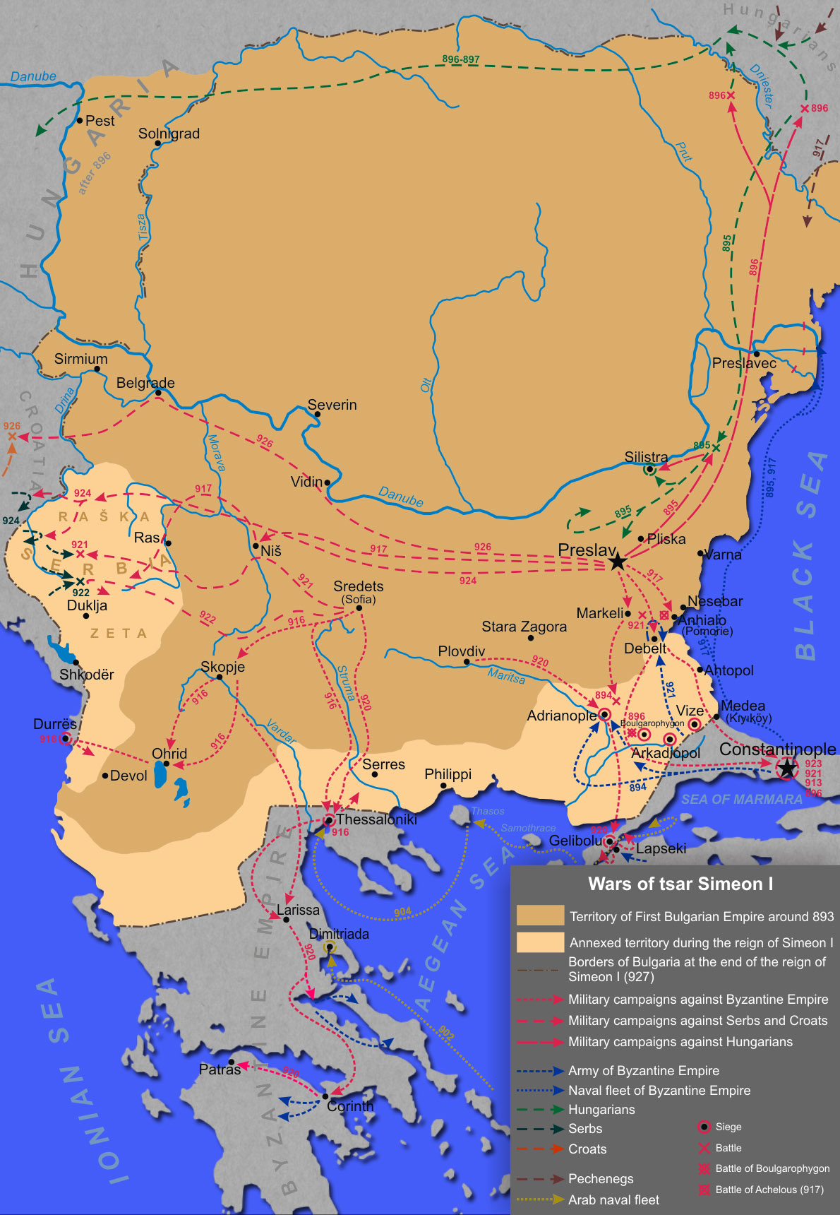 Exactation according to De administrando imperio, Const. Porphyr., ibid., cap. 32, p. 154—155